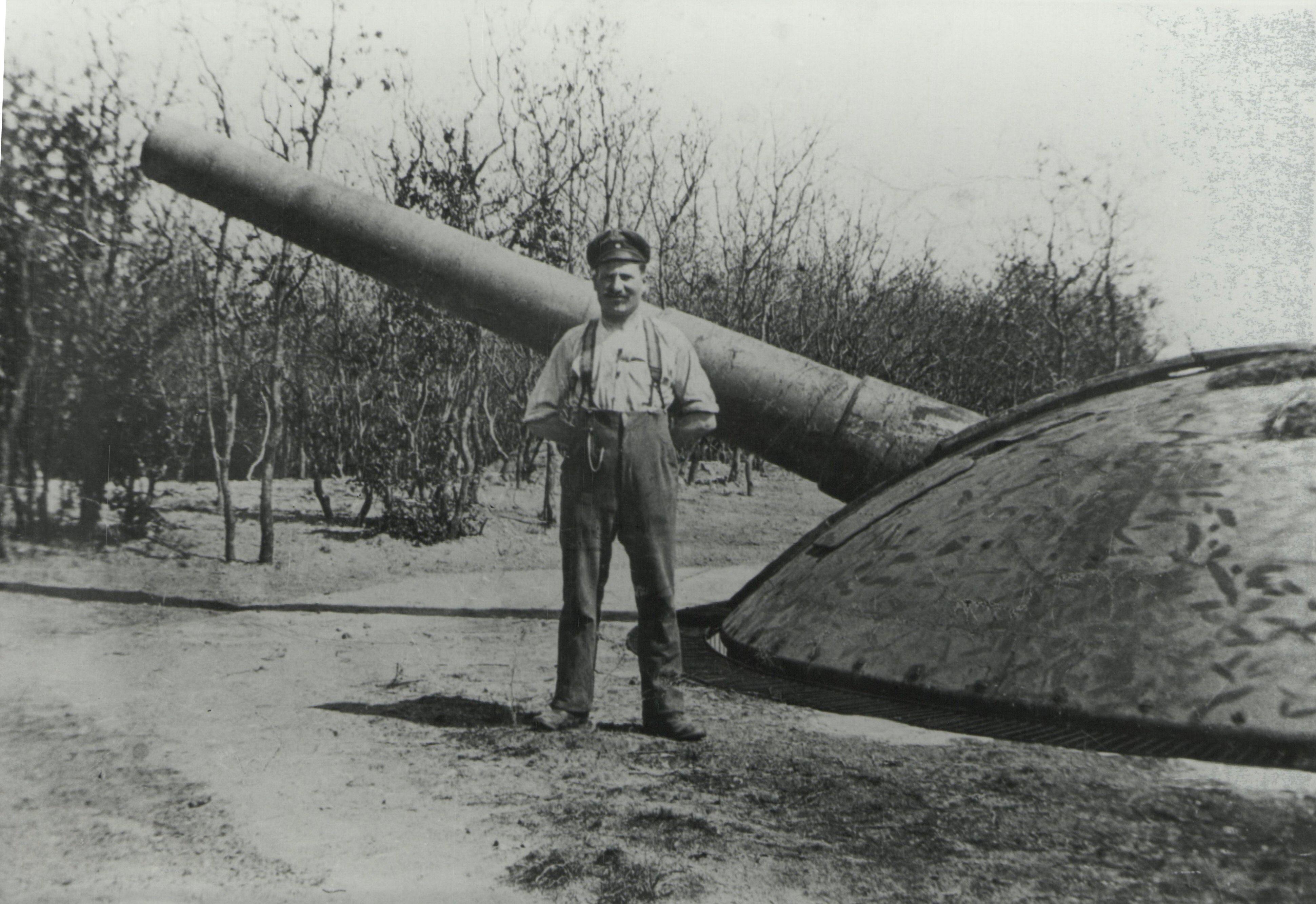 Batteri Gammelskov, part of Sikringsstilling Nord, a fortification in southern Jutland, Denmark built in 1916-1918 and conserved